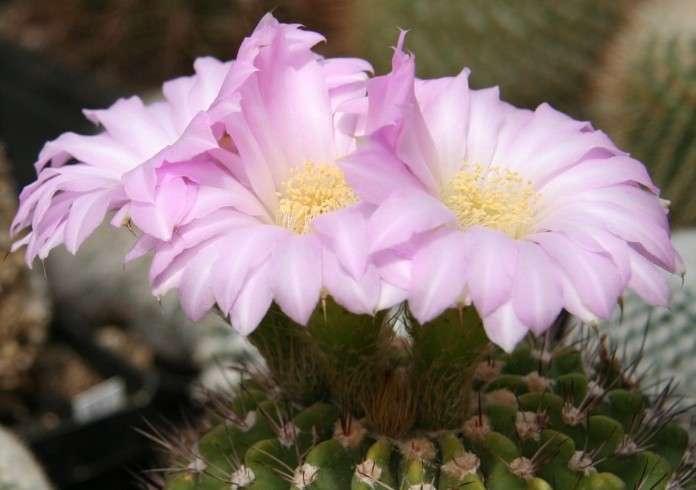 Acanthocalycium violaceum in Blüte